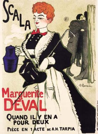 Poster of Marguerite Deval at the Scala